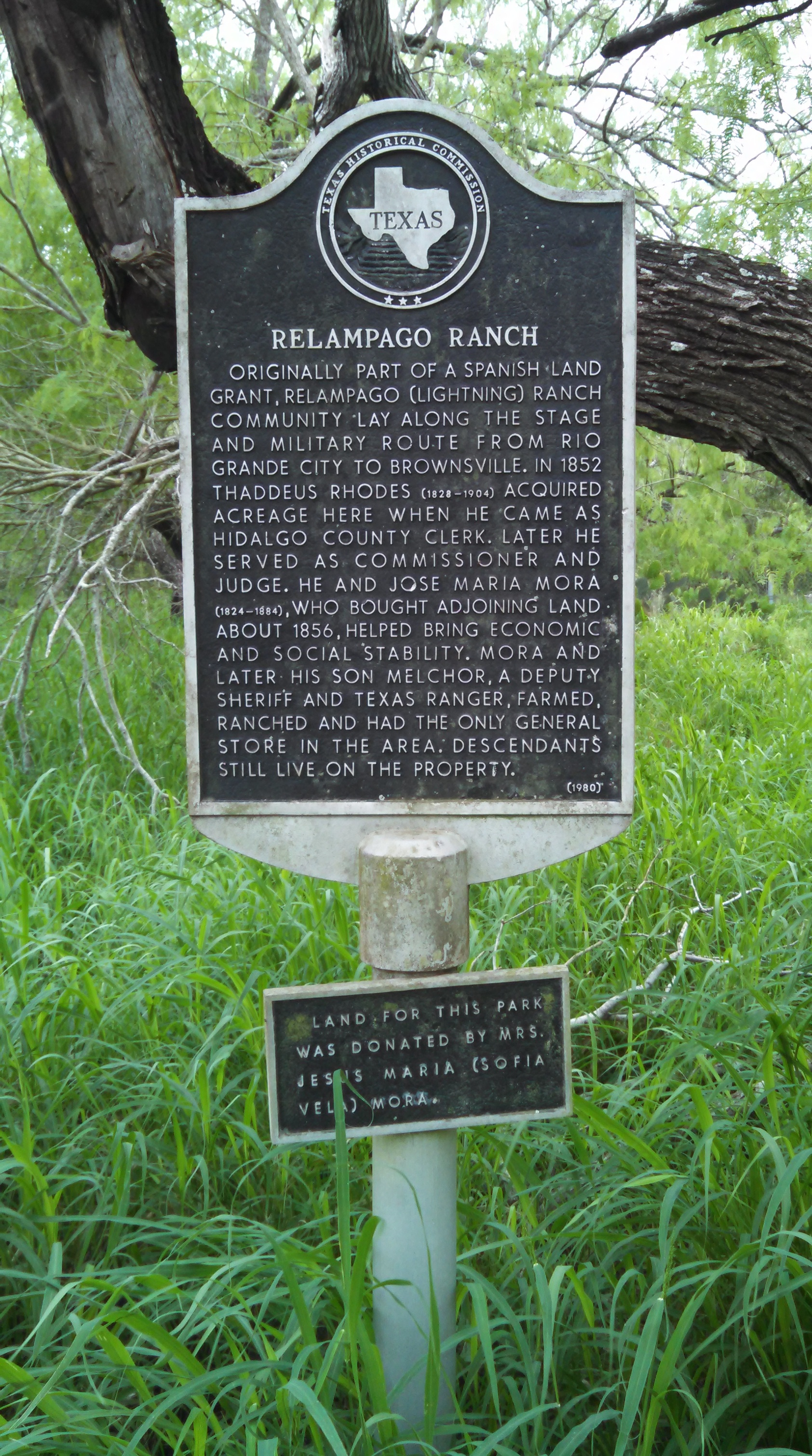 Historical Marker for Relampago Ranch from the 19th century from a Spanish land grant.